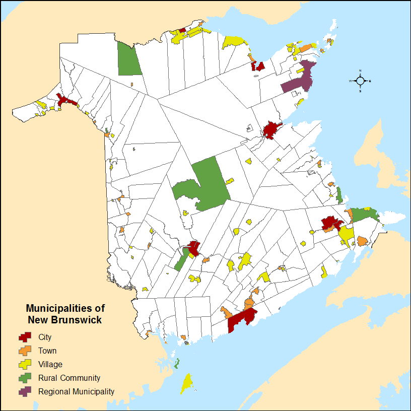 Distribution of New Brunswick's 107 municipalities (8 cities, 26 towns, 65 villages, 7 rural communities and 1 regional municipality) utilizing Statistics Canada's 2015 intercensal census subdivision boundaries.